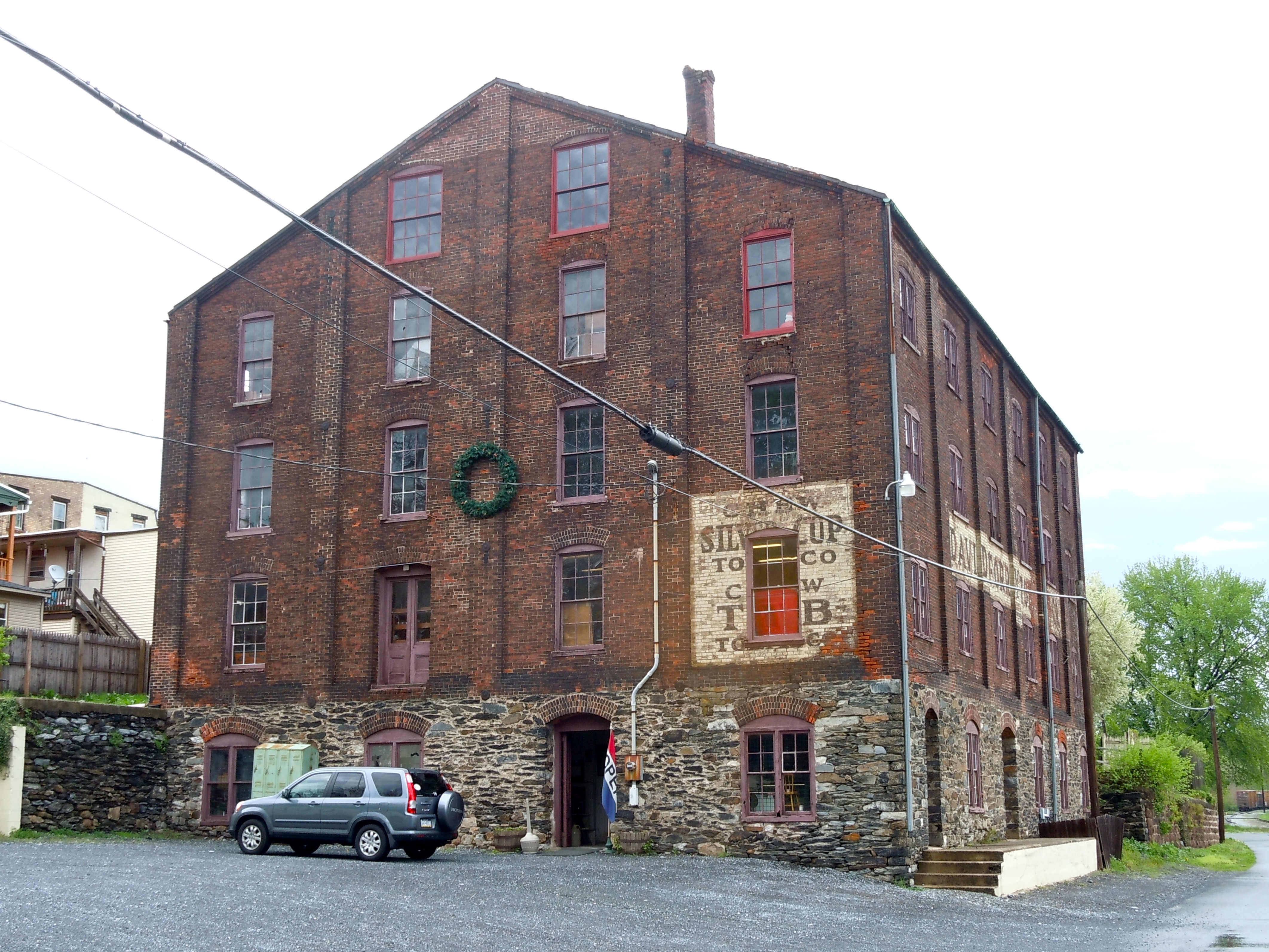 Bachman and Forry Tobacco Warehouse on the NRHP since March 29, 1979. At 125 Bank Alley (really an alley!), Columbia, Lancaster County, Pennsylvania. Now used as an antiques store.